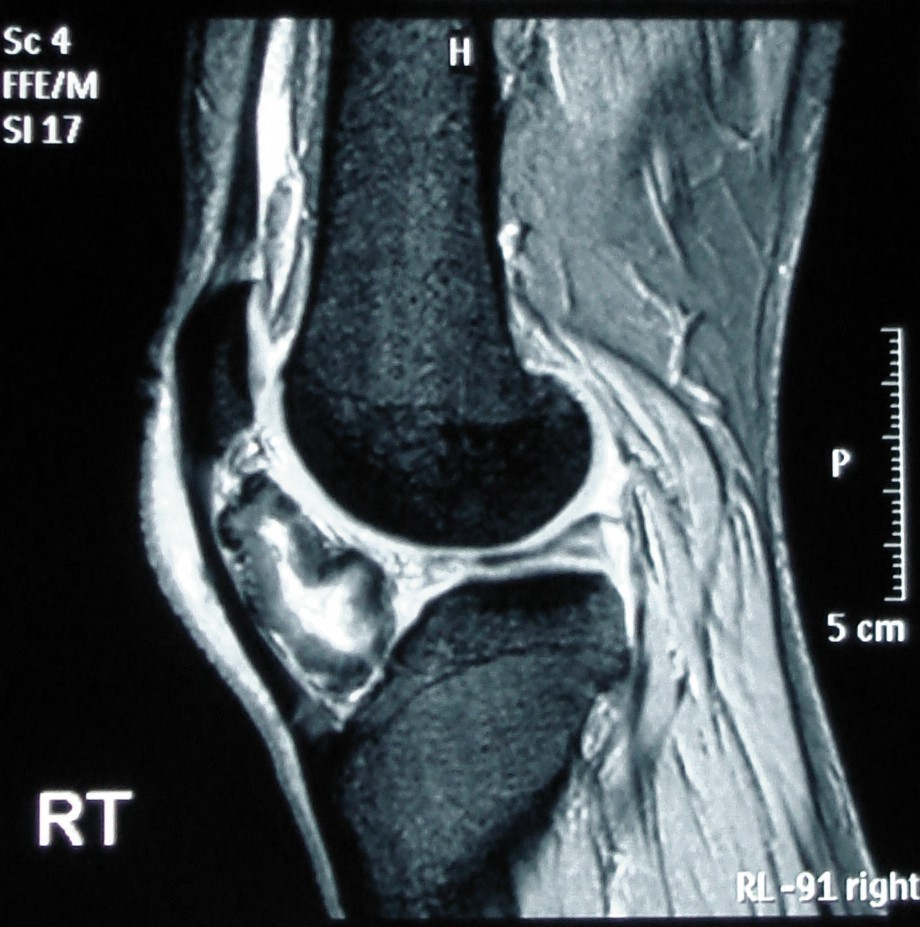 Magnetic resonance imaging of the knee demonstrating ossification in the peritendinous tissues in a patient with osteochondroma.